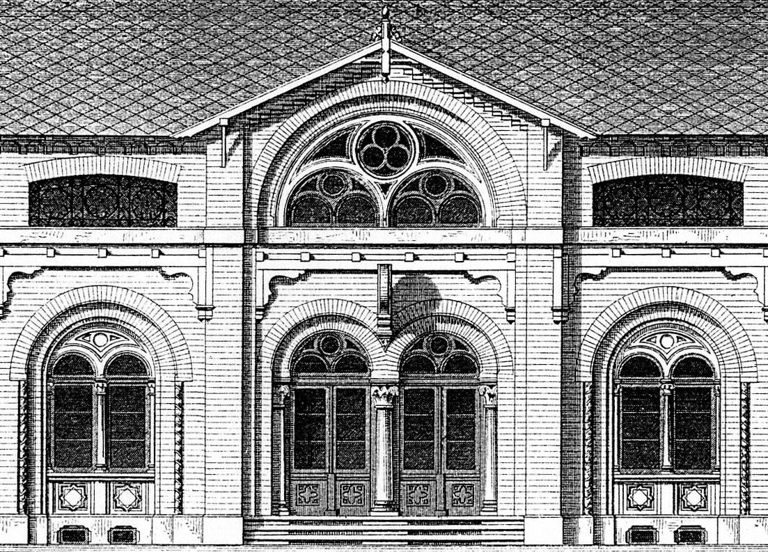 A partial side view of the railway station in Nordstemmen.